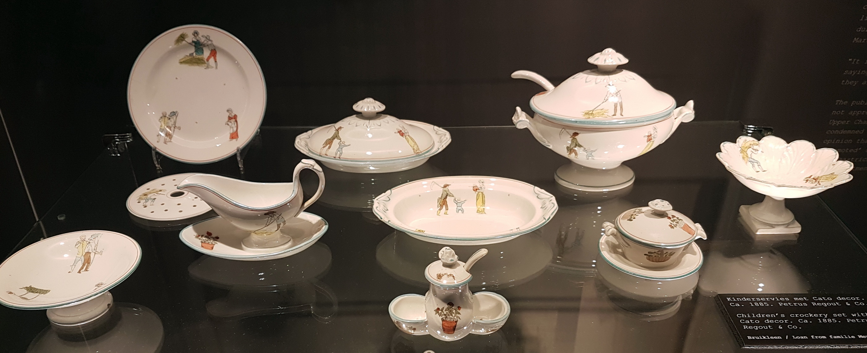 Children's dinner service with decor Cato (ca. 1885) by Petrus Regout & Co . Maastricht pottery collection, Centre Céramique, Maastricht, Netherlands.